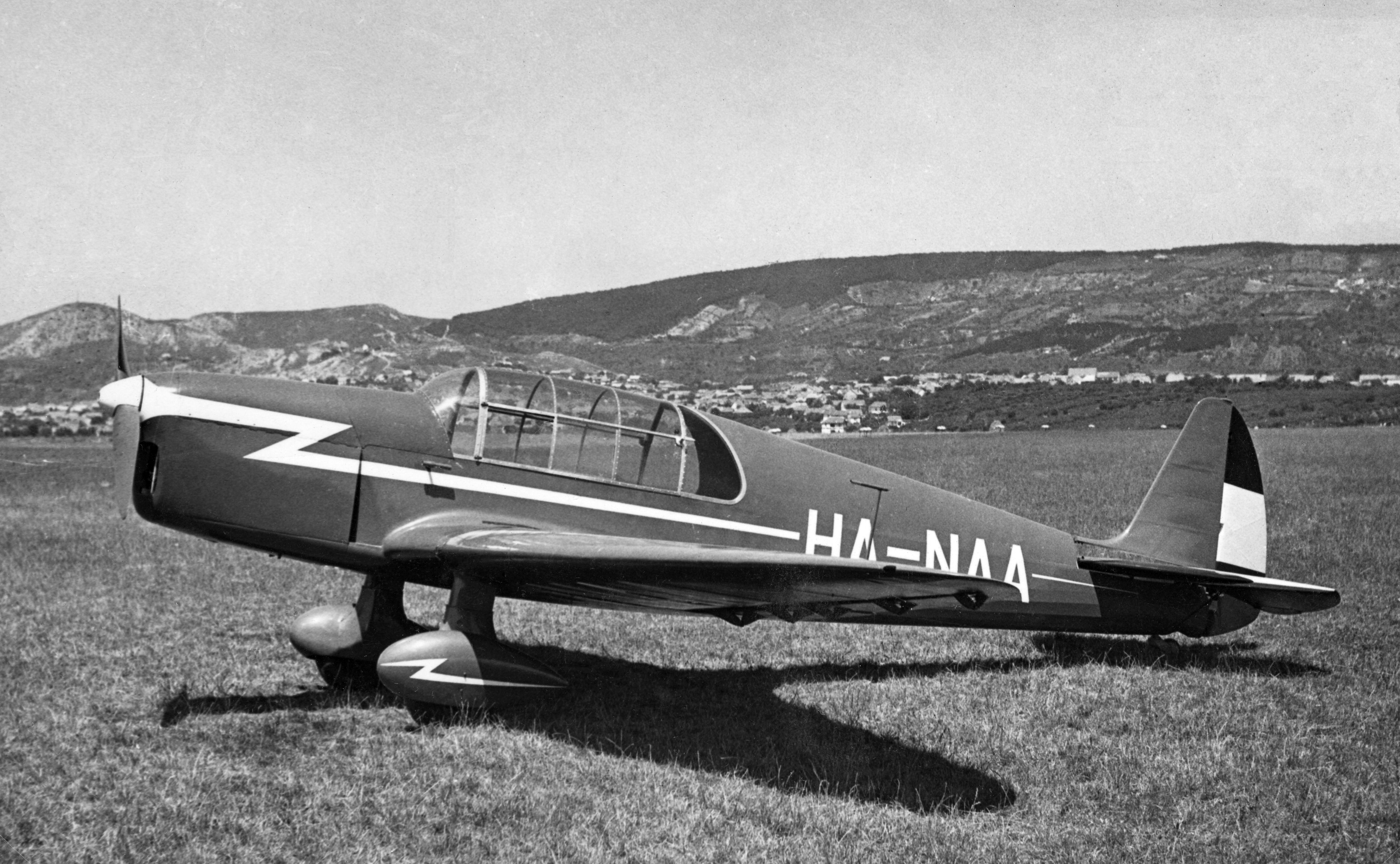 Rubik M-19 (originally designated R.02) at Budaörs Airport, Budapest, Hungary, in 1938